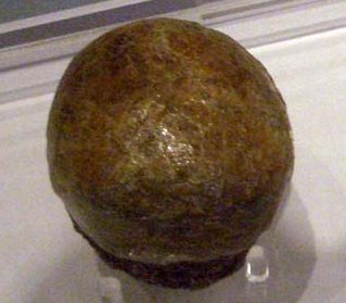 Cropped image of taxon in file name